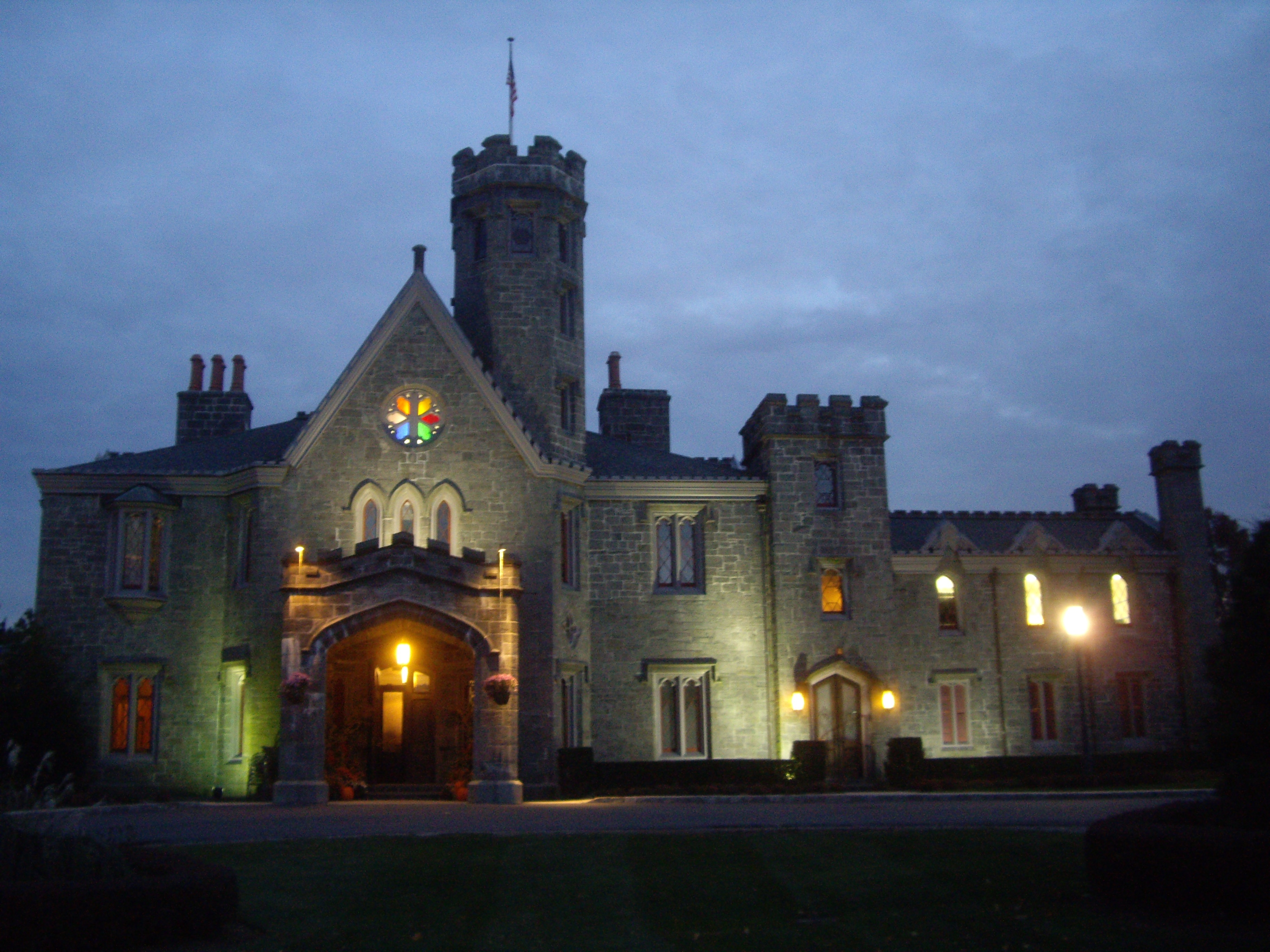 Whitby Castle, Rye Country Club, Rye, NY